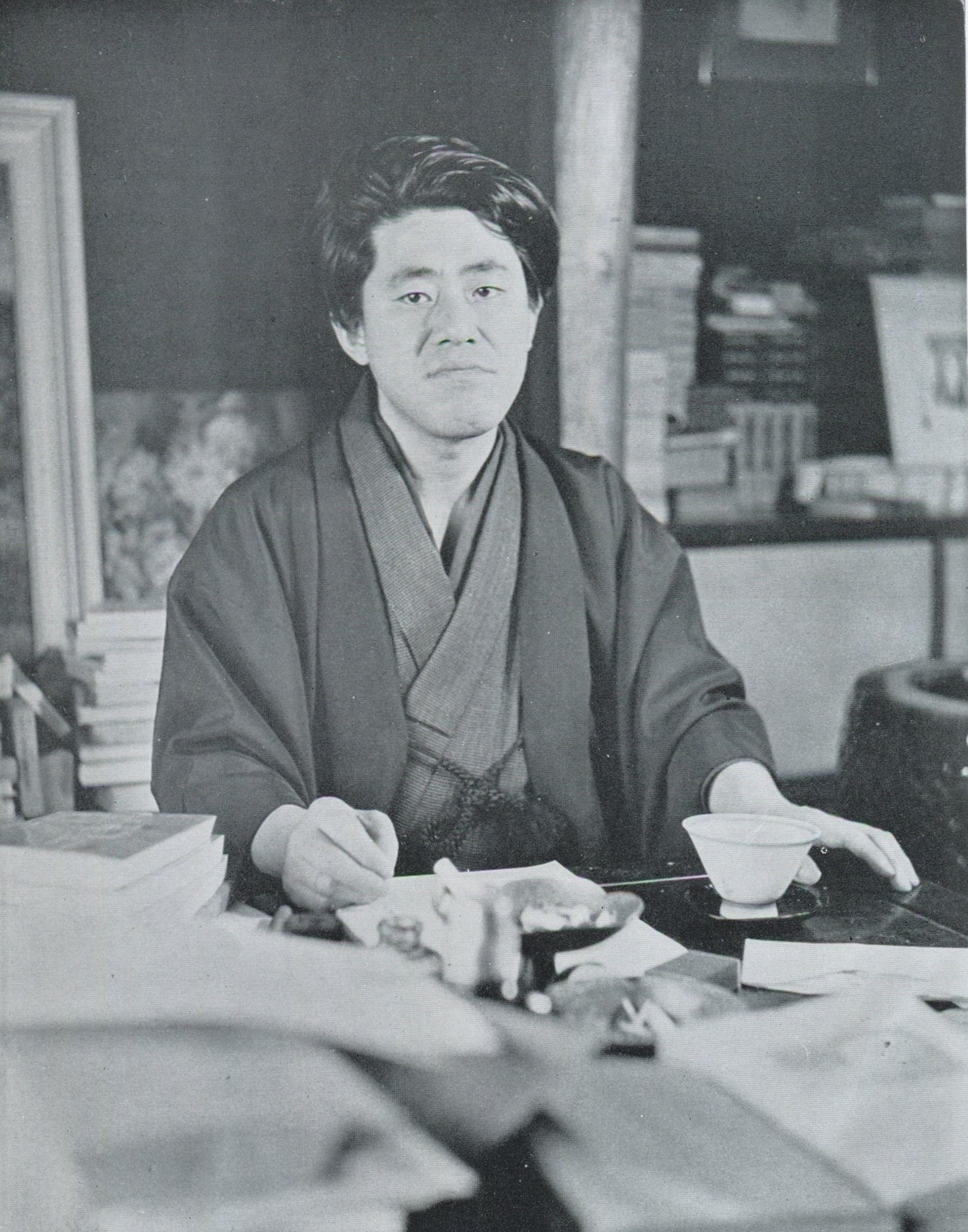 Rintarō Takeda, 1940-1941